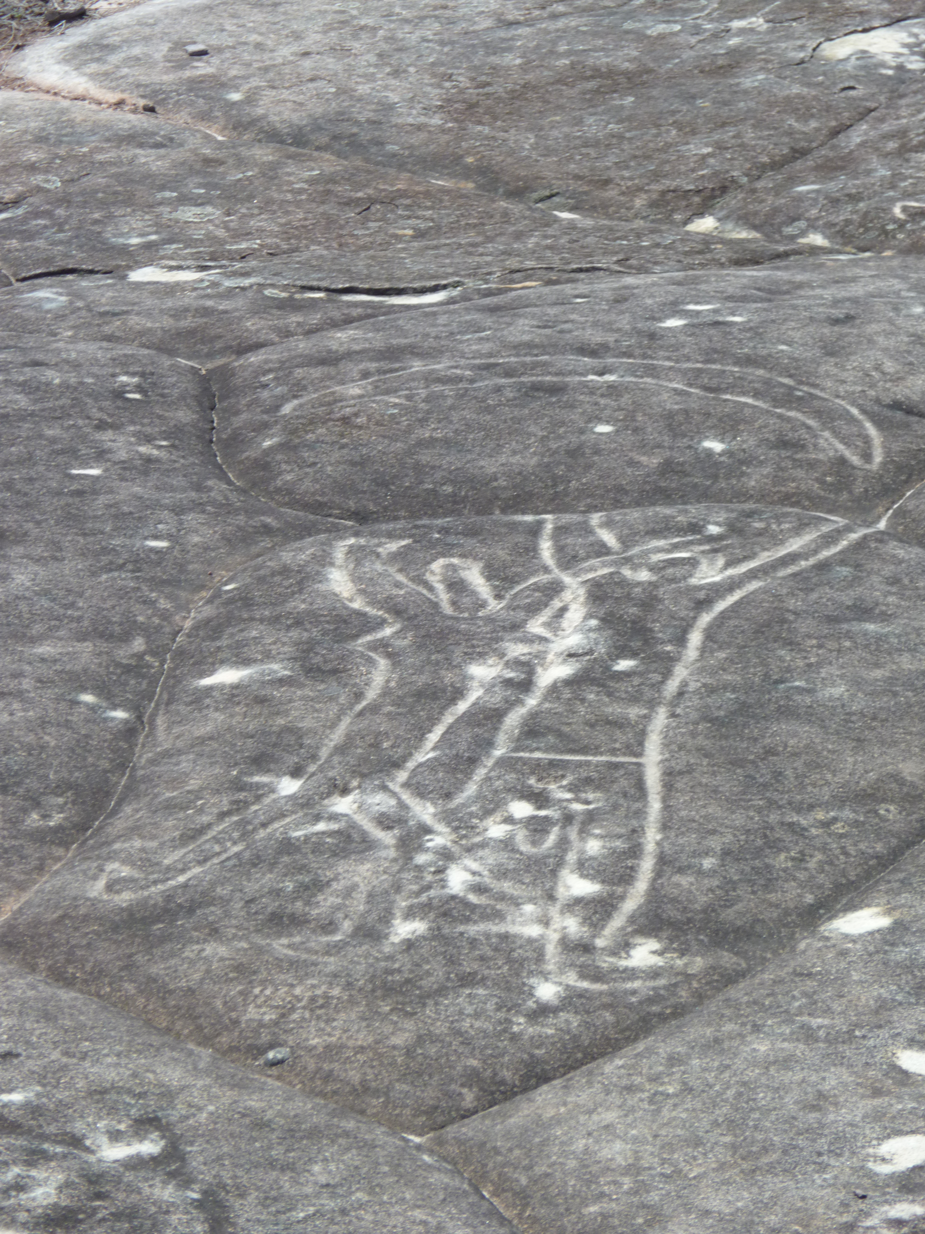 Basin Track, Aboriginal Art, group 4, Ku-ring-gai Chase NP, Sydney